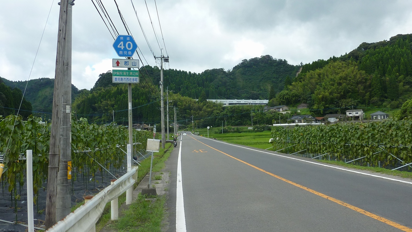 Kagoshima Prefectural Road No.40:Ijuin-Kamo-Mizobe Line (Nishisata-cho, Kagoshima City, Kagoshima, Japan)